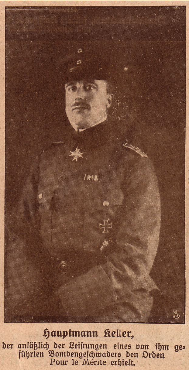 German Captain Alfred Keller, bomber pilot (WW1)